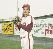 Professional baseball player Chuck Malone